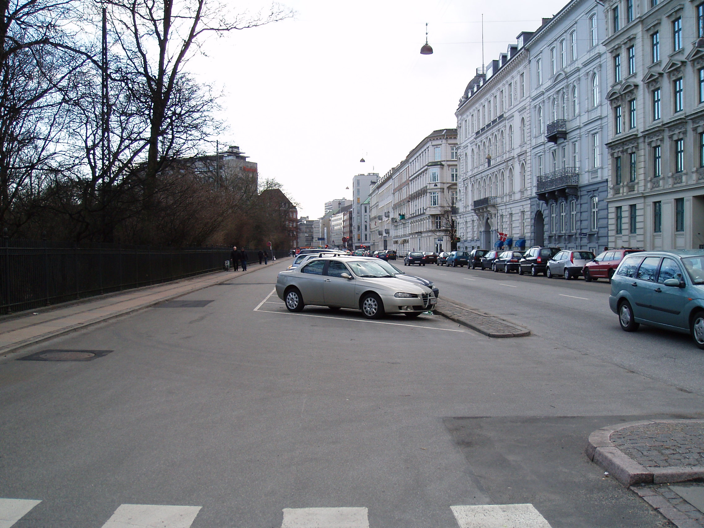 Traffic to/from the parking spaces on this side is isolated from the rest of the road.